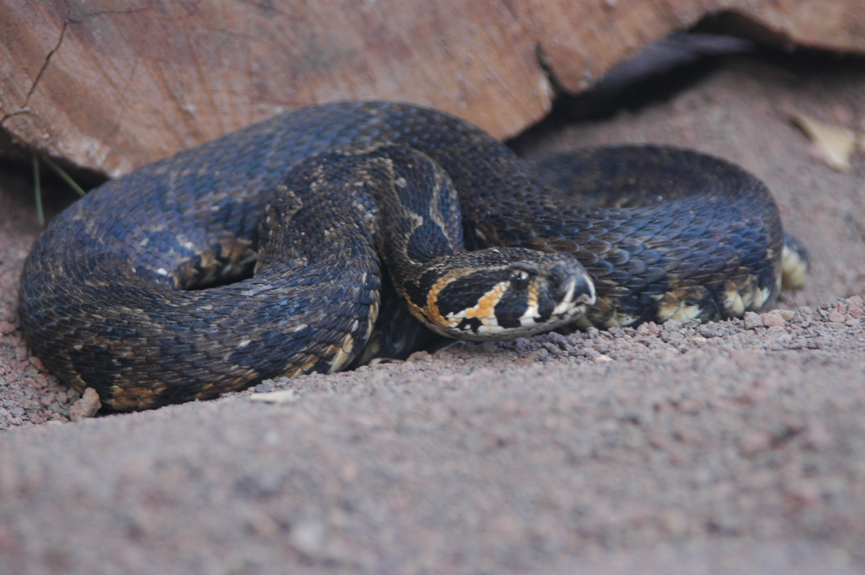 melanistic Vipera palaestinae. Golan Heights, Israel